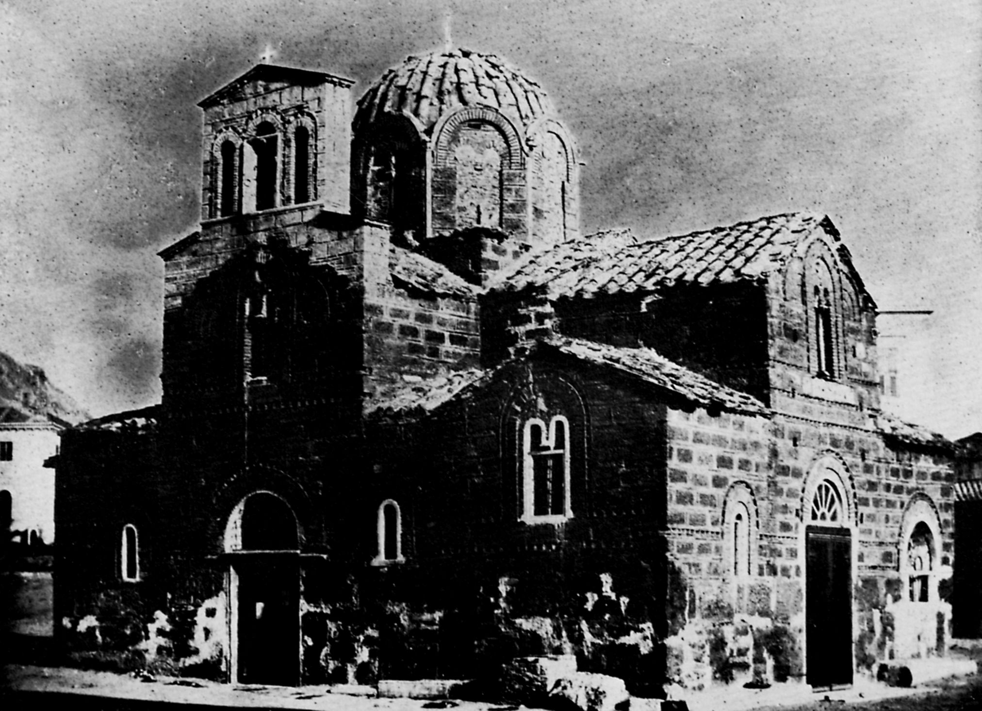 St. Theodore church, Atheny, Fotograf: Prangey, Joseph-Philibert Girault de year: 1842, Daguerreotypie, Land: Greece, Architektur